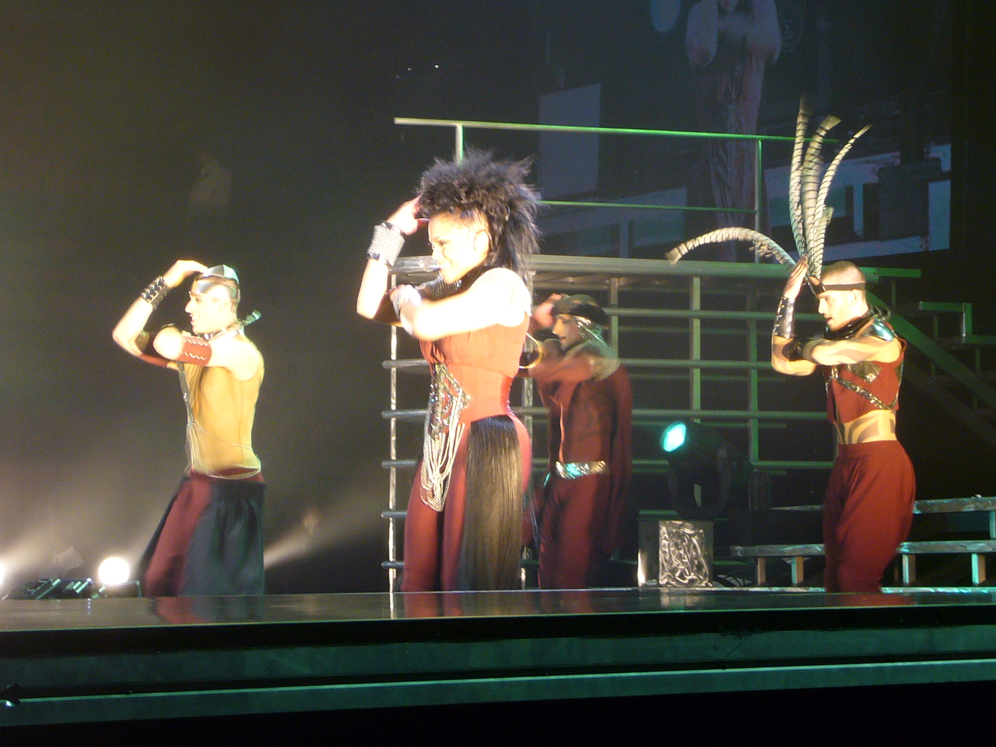 Janet Jackson, Vancouver